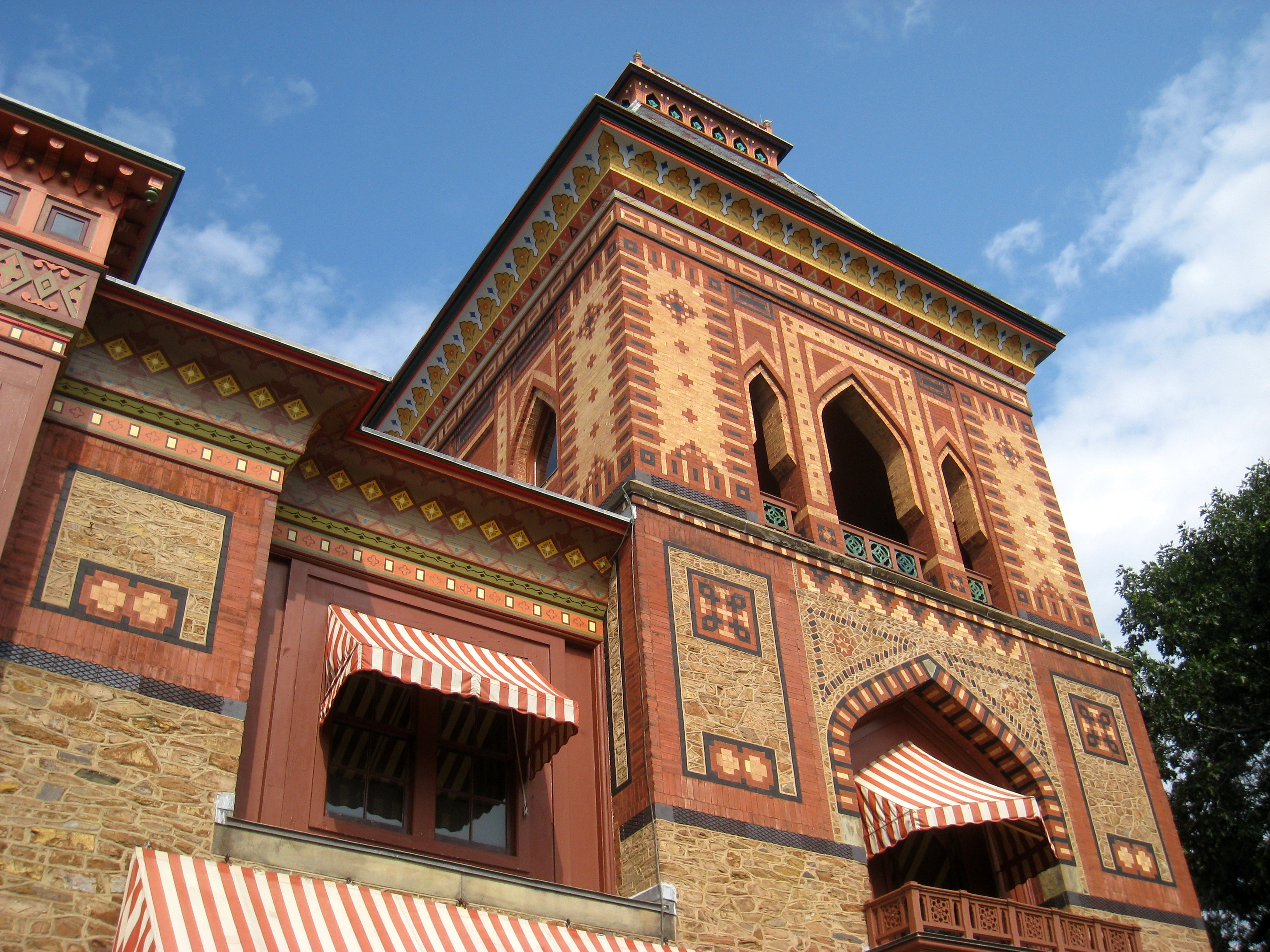 Olana State Historic Site, Columbia County, New York, USA.